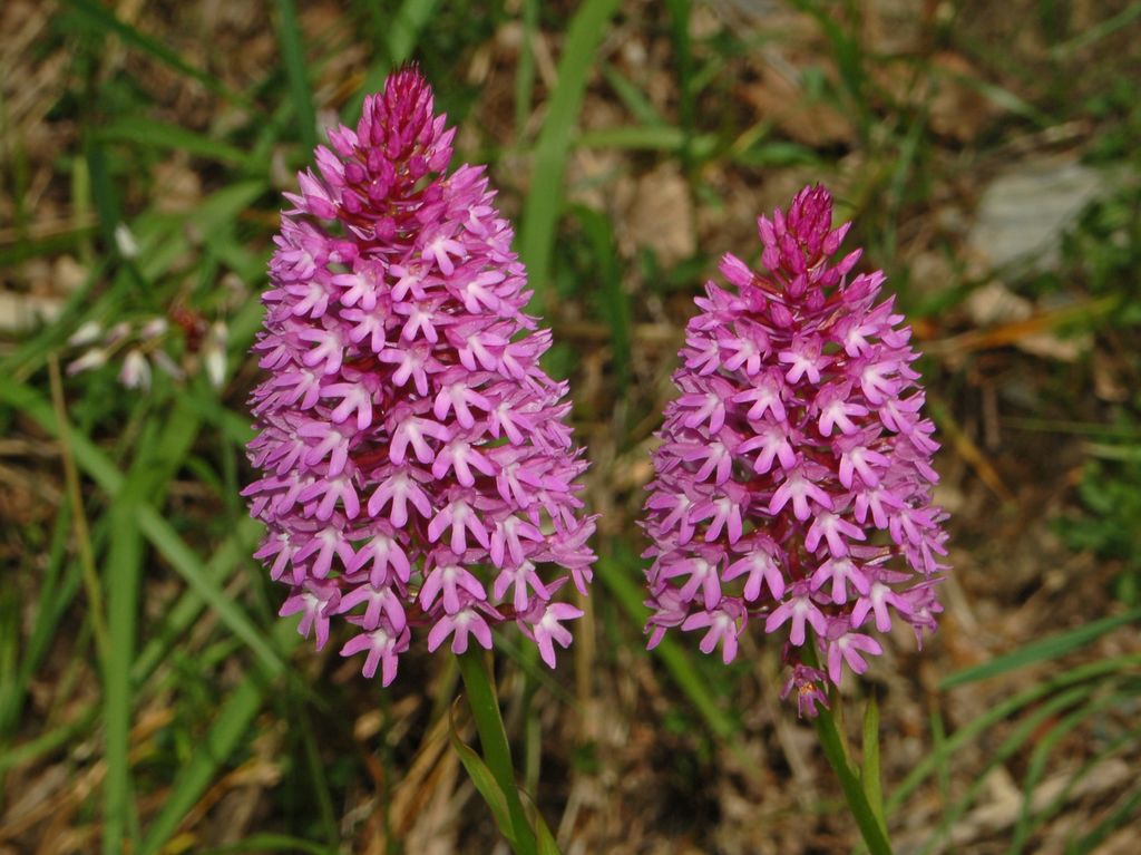 Anacamptis pyramidalis - Genova, Italy